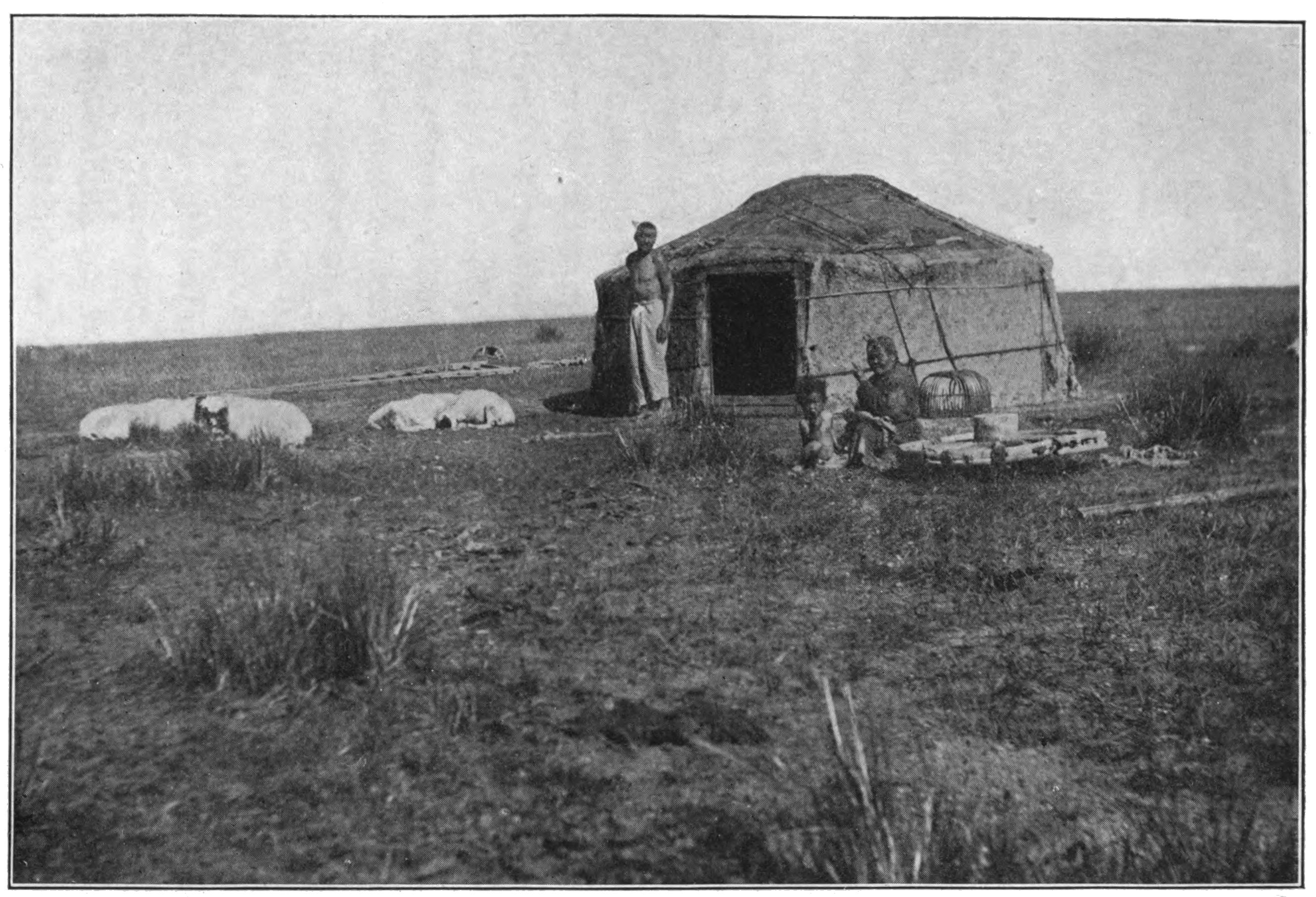 "A poor Mongol Family and Yurt." Facing page 248 of book.